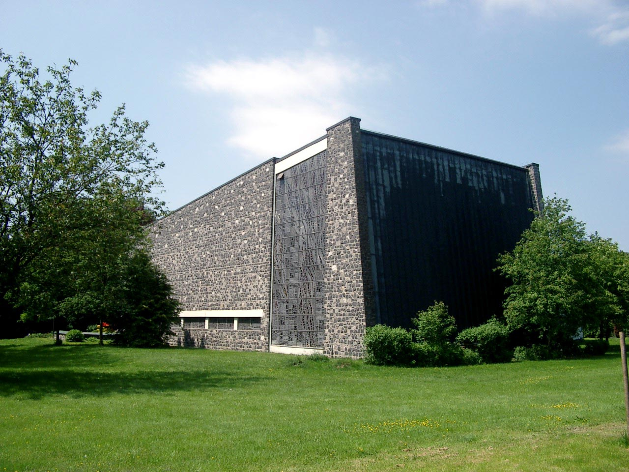 St. John's Church in Guckheim